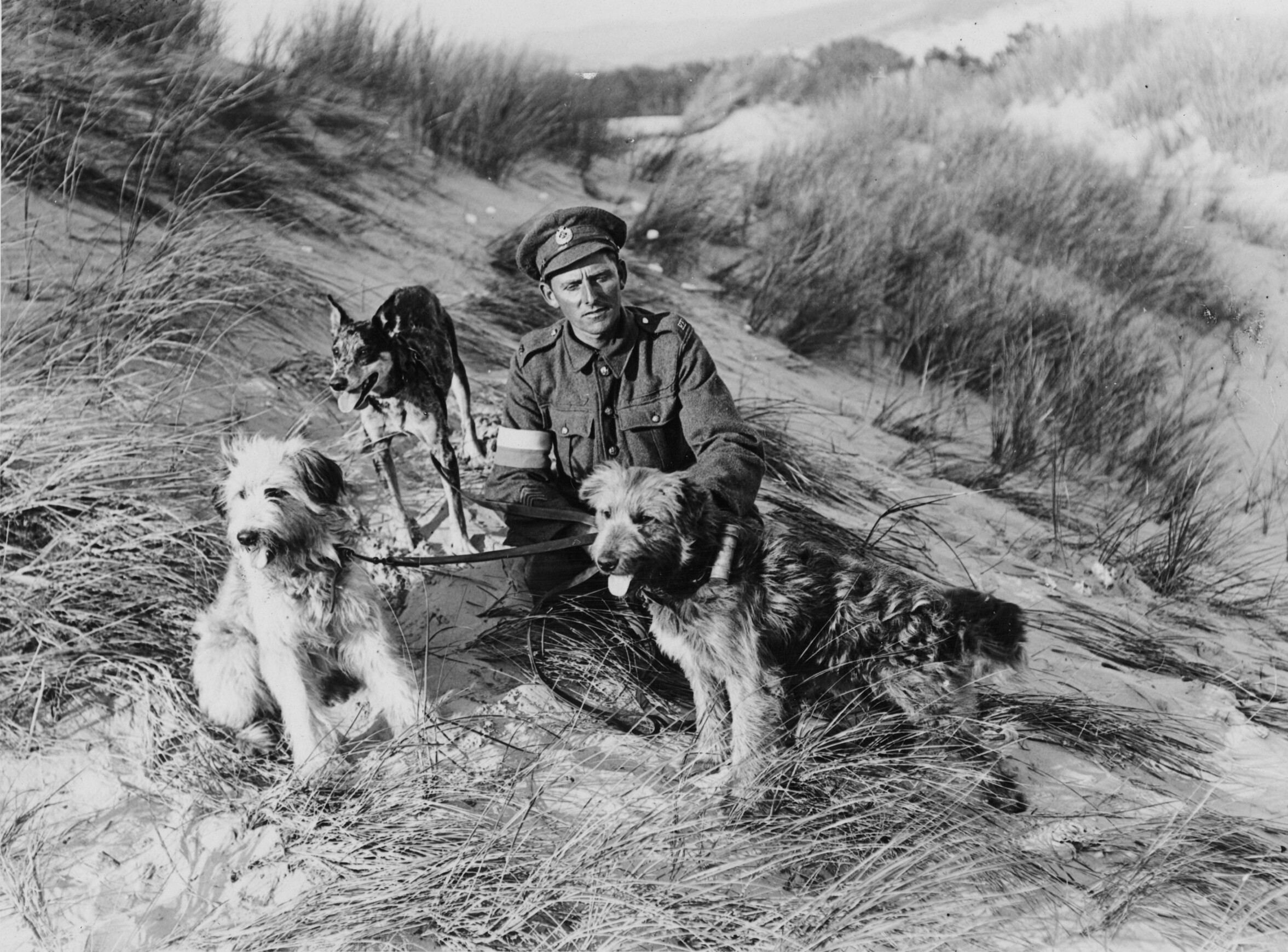 British messenger dogs with their handler, France, during World War I. A British soldier holds three dogs which were trained to carry messages between the lines and command during World War I. Usually the dogs had been strays, so one particular breed of dog could be not preferred. Generally, however, traditional working breeds, such as collies, retrievers, or large terriers, were chosen for messenger work. Messenger dogs were based in sectional kennels near the front lines. On average each sectional kennel had 48 dogs and 16 handlers, a ratio that indicates how important the dogs' work was at the front. Before being shipped to France the dogs were trained at the War Dog Training school in Shoeburyness. [Original reads: 'OFFICIAL PHOTOGRAPH TAKEN ON THE BRITISH WESTERN FRONT IN FRANCE. British Messenger Dogs which gave an exhibition of their skill to Dominion Journalists.']